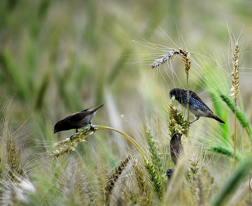 Bird In Wheat Field